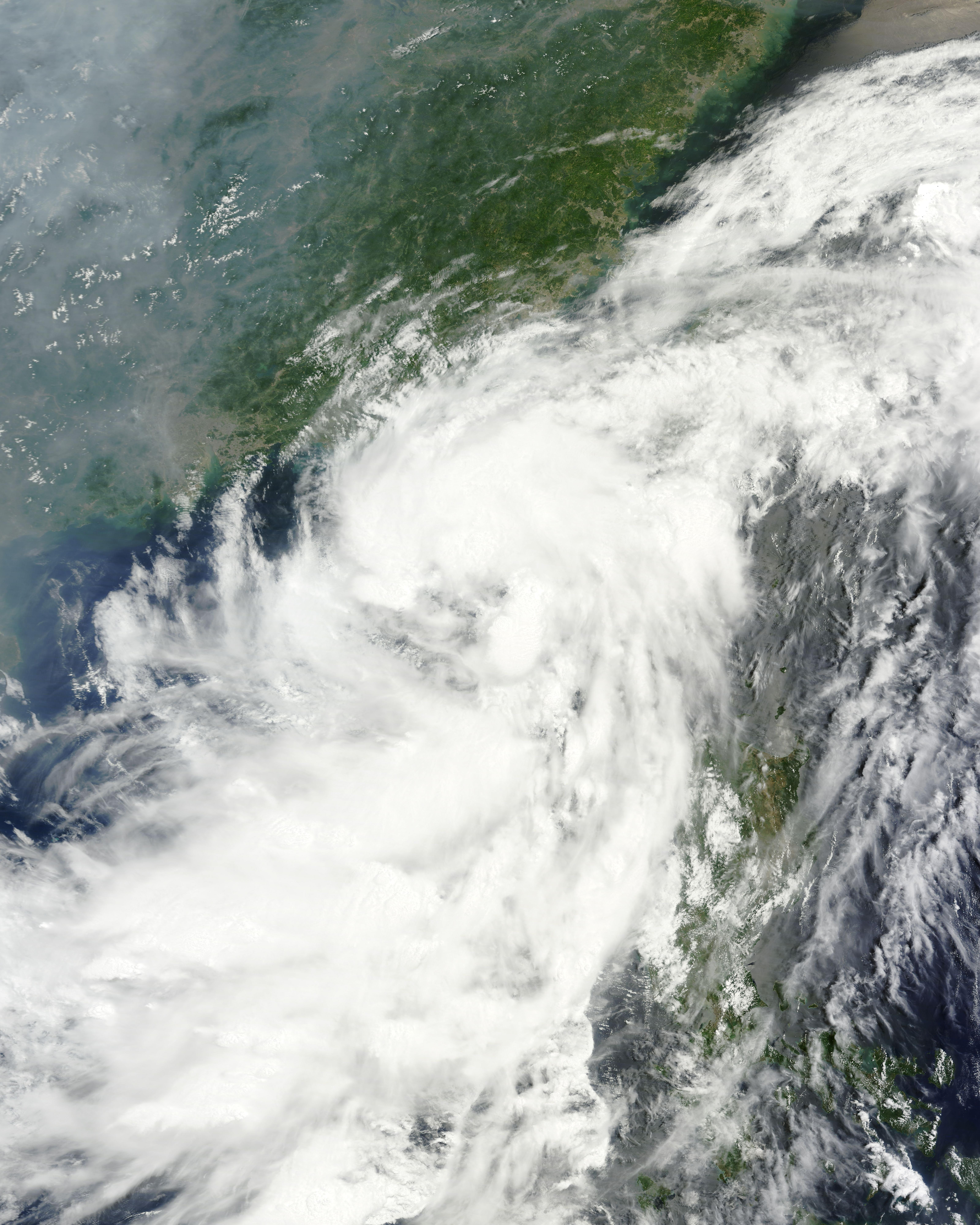 Hagibis Jun 14 2014 0240Z